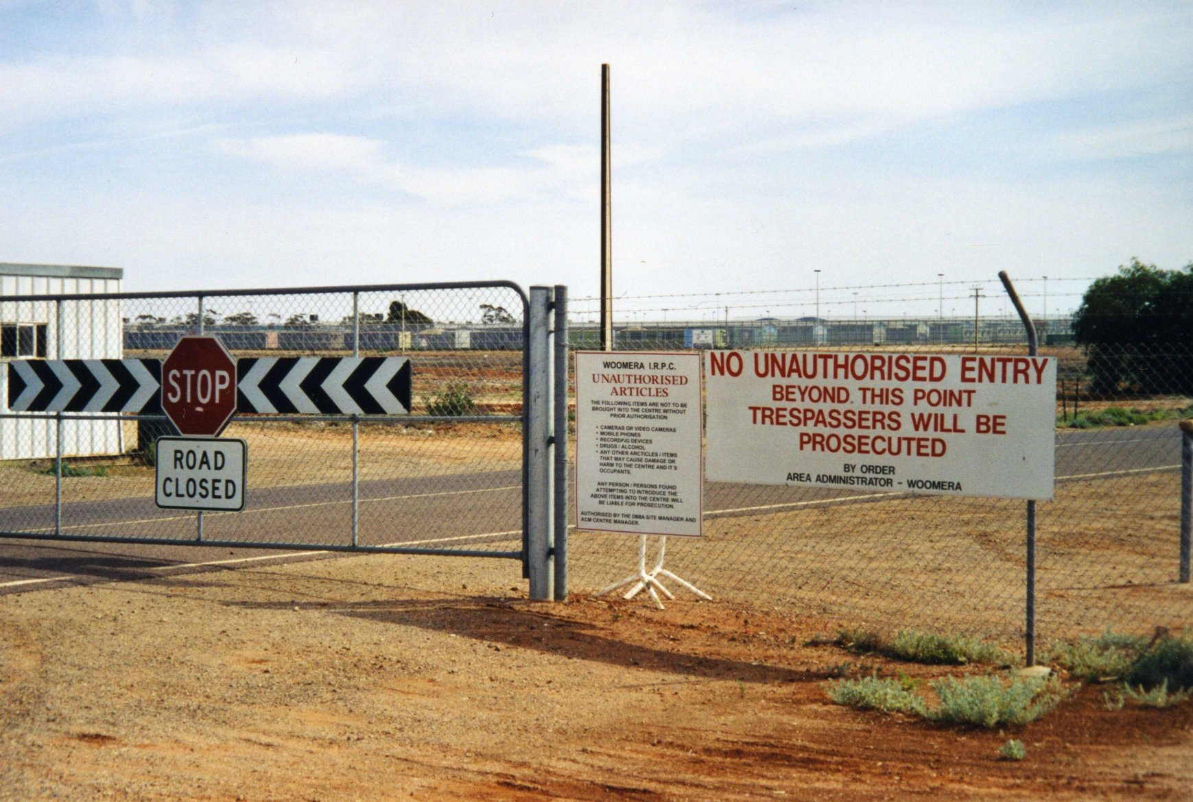 The entrance of the Woomera Immigration Reception and Processing Centre in Australia. Photo taken in April 2003, when the center had already been closed.